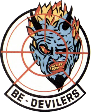 Insignia of the U.S. Navy Fighter Squadron 74 (VF-74) "Be-Devilers".